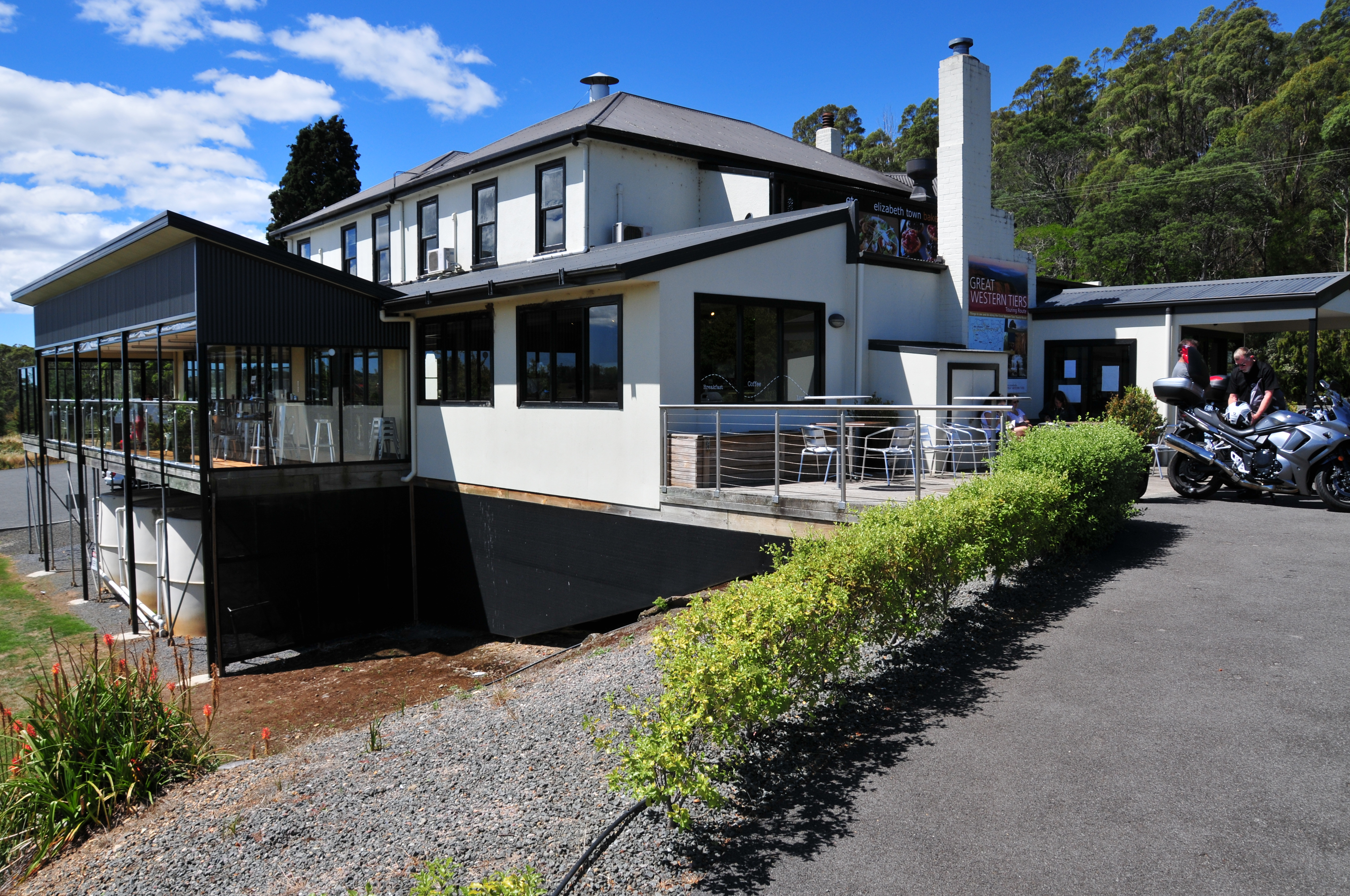 Rear of the ETC cafe, Elizabeth Town, Tasmania, Australia